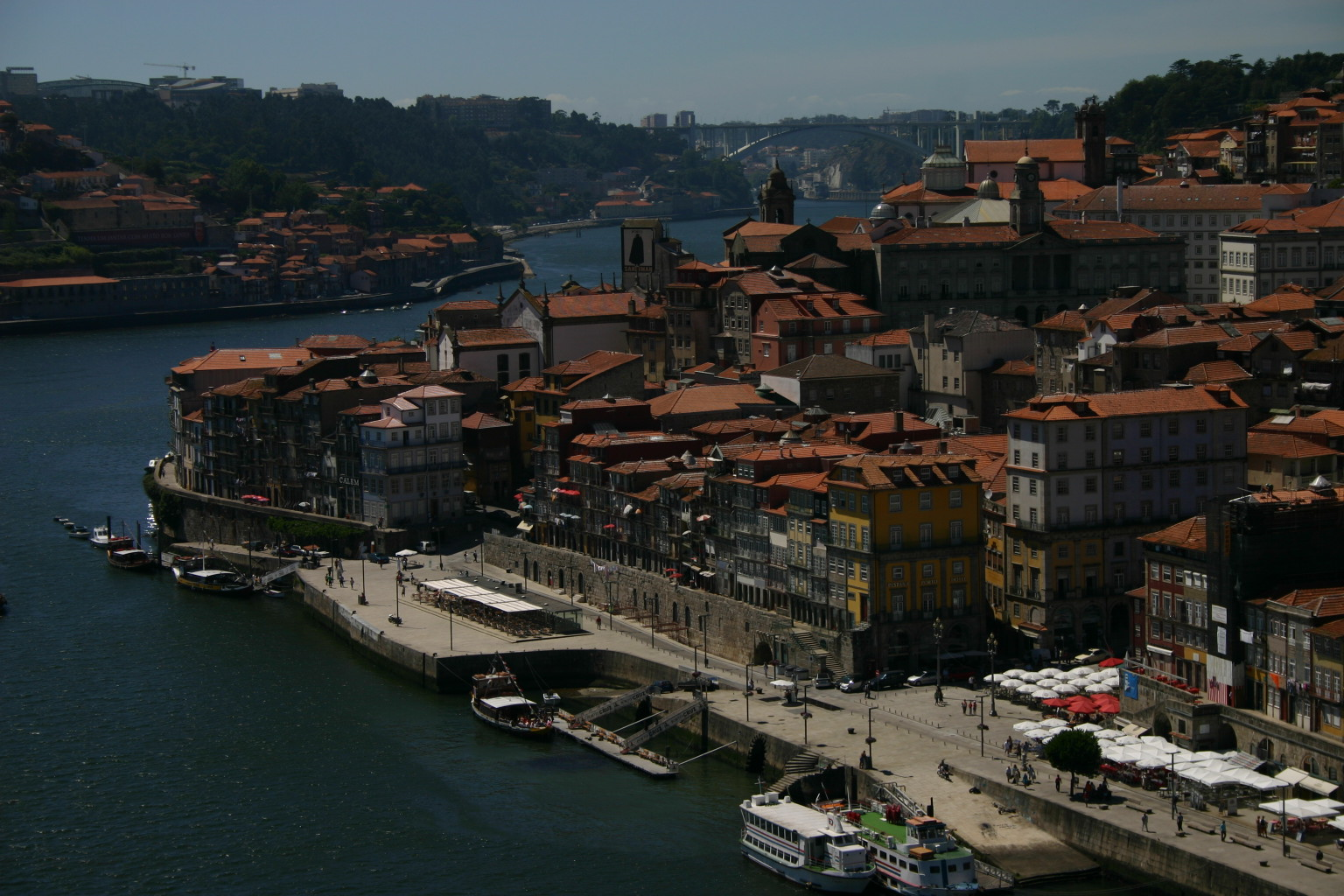 Author: António M.L. Cabral; Copy permited if the name of the author is included.